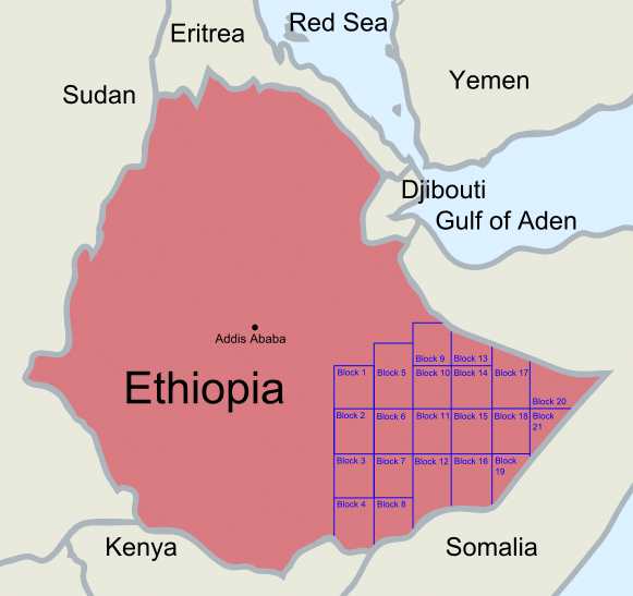 Oil exploration blocks in the Ogaden Basin of Ethiopia. Data from Ethiopian Ministry of Mines and Energy